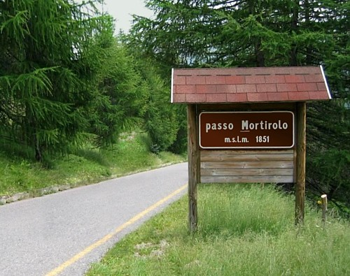 Passo Mortirolo, also called Passo della Foppa (NOT the nearby pass with the same name (Passo del Mortirolo, 1892 m))